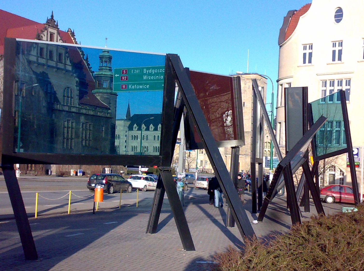 Mirrors, Poznan, Kaponiera.